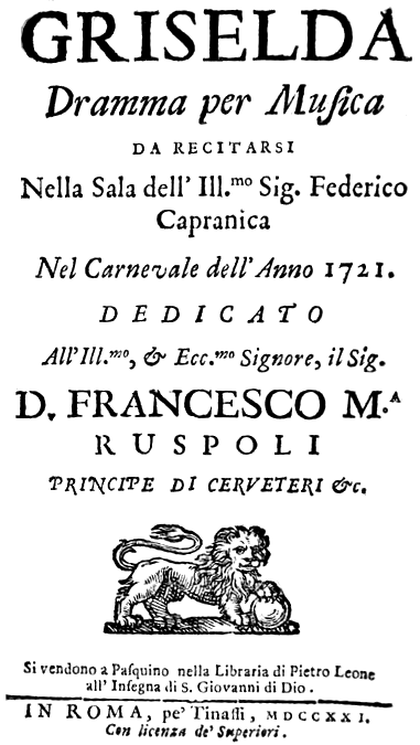 Alessandro Scarlatti - Griselda - titlepage of the libretto - Rome 1721